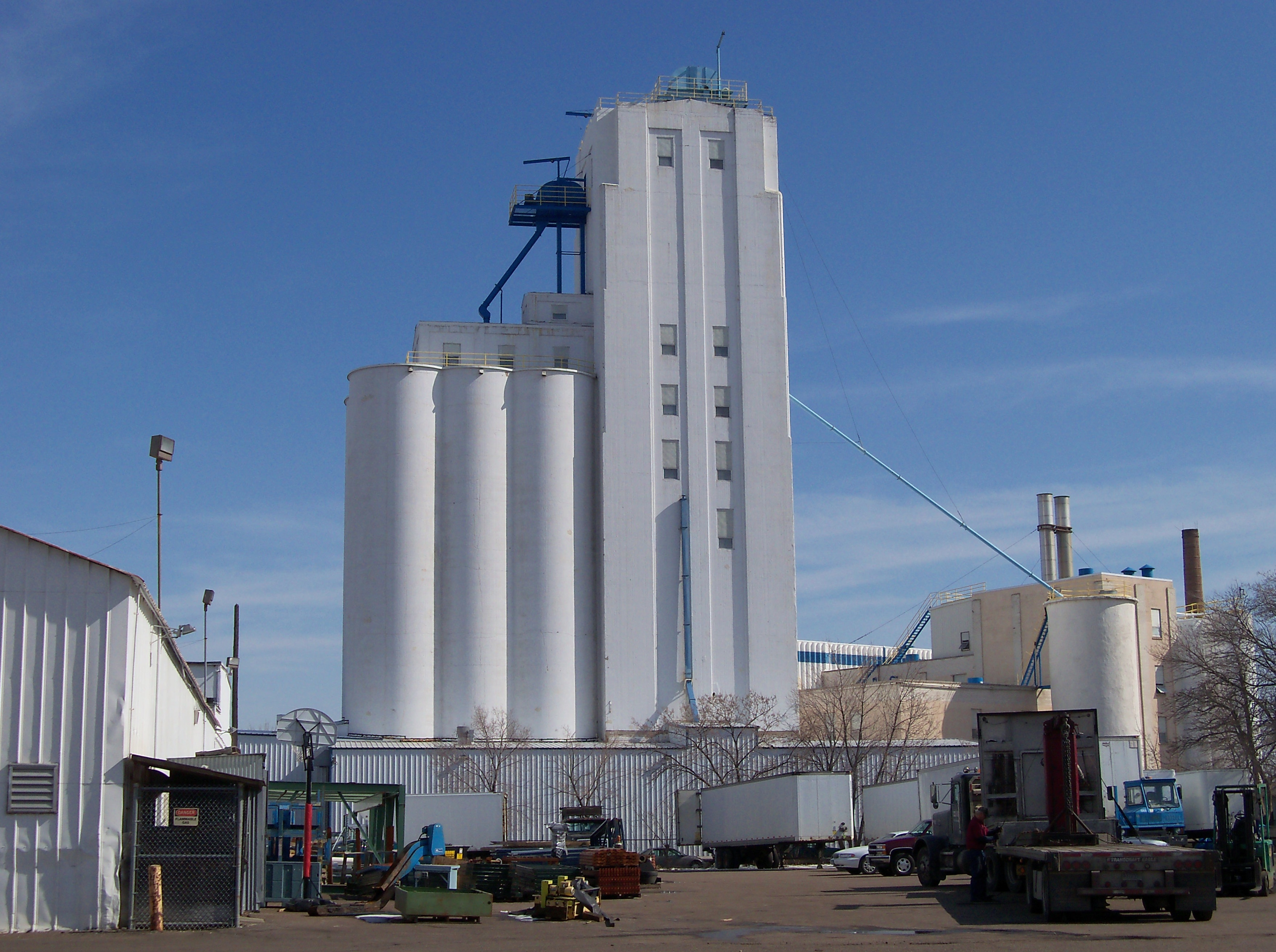 General Mills elevator in Northeast Minneapolis, Minnesota, USA.